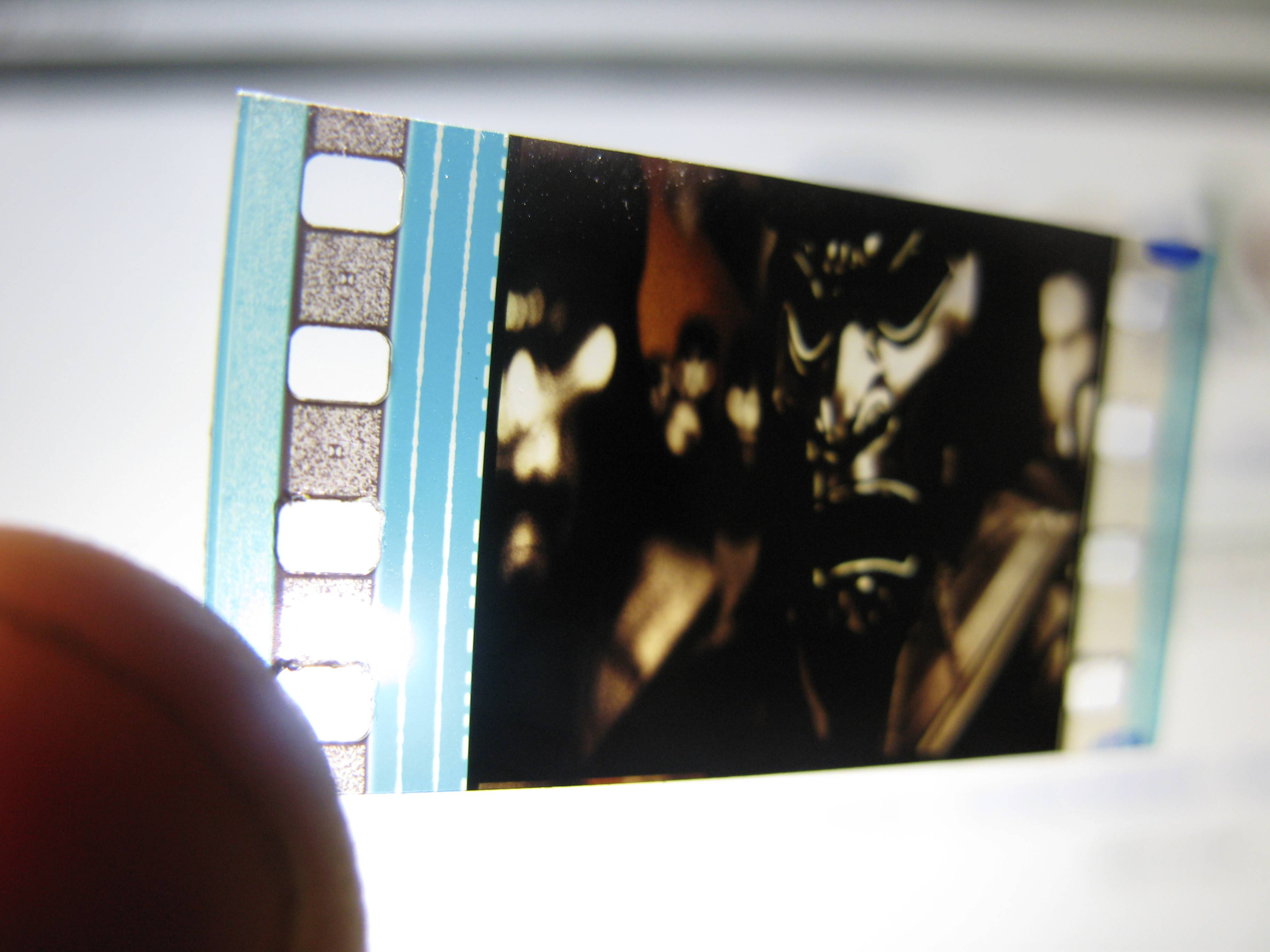 Photo taken by me.